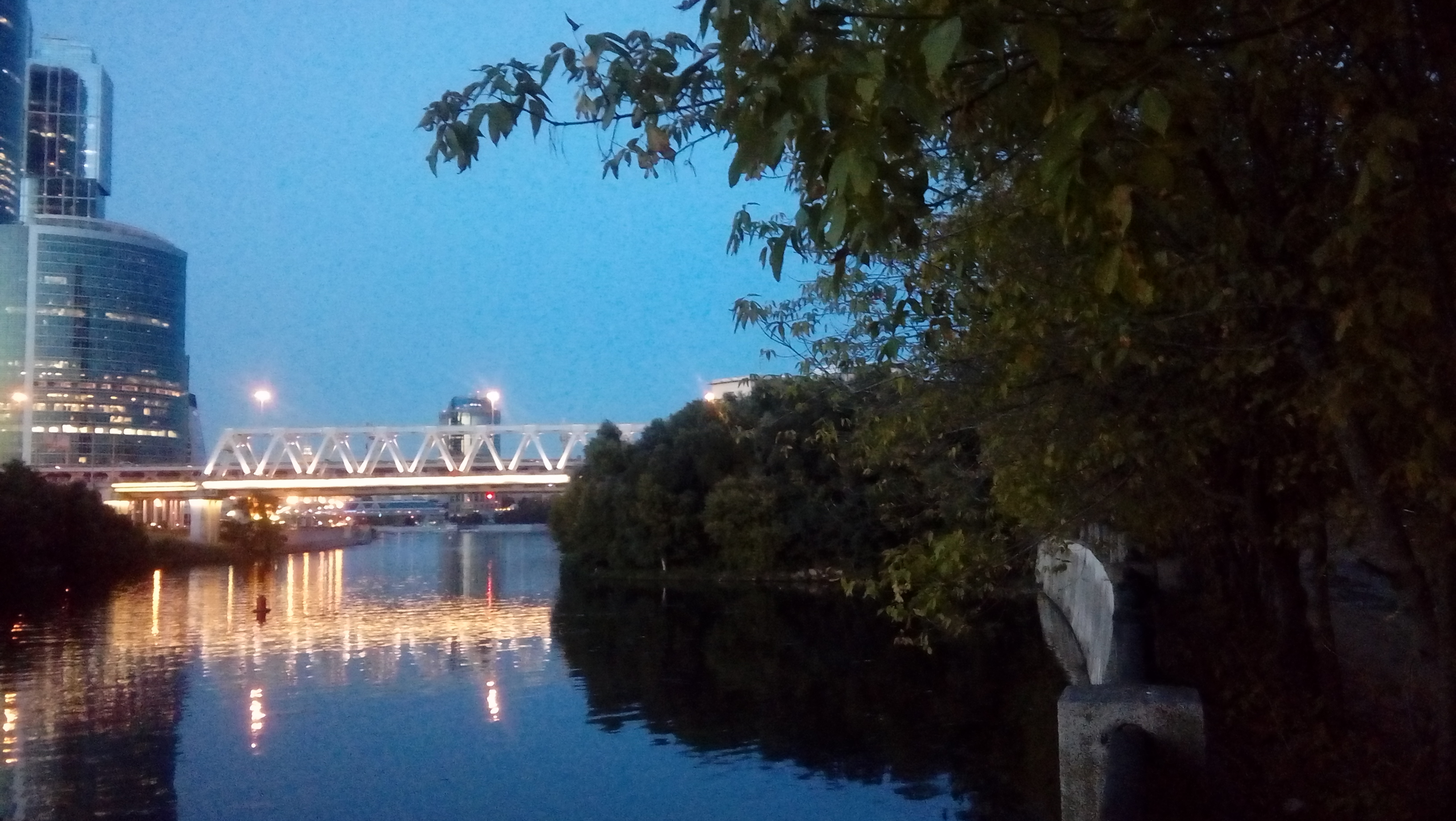 The approximate location of ancient limestone catacomb in Moscow